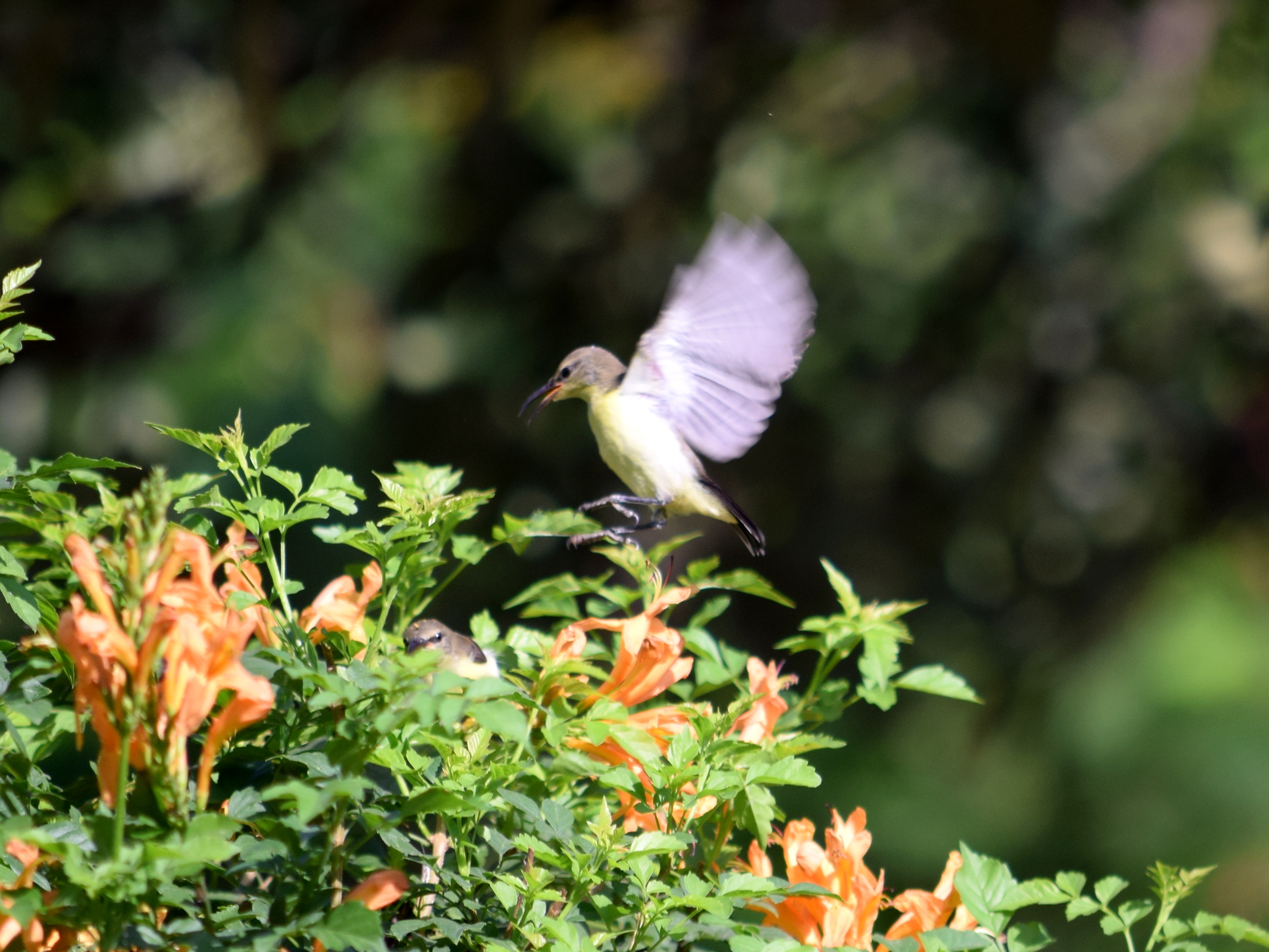 The purple sunbird is a small sunbird which feed mainly on nectar, although they will also take insects, especially when feeding young. They have a fast and direct flight and can take nectar by hovering like a hummingbird but often perch at the base of flowers. The males appear all black except in some lighting when the purple iridescence becomes visible. Females are olive above and yellowish below.